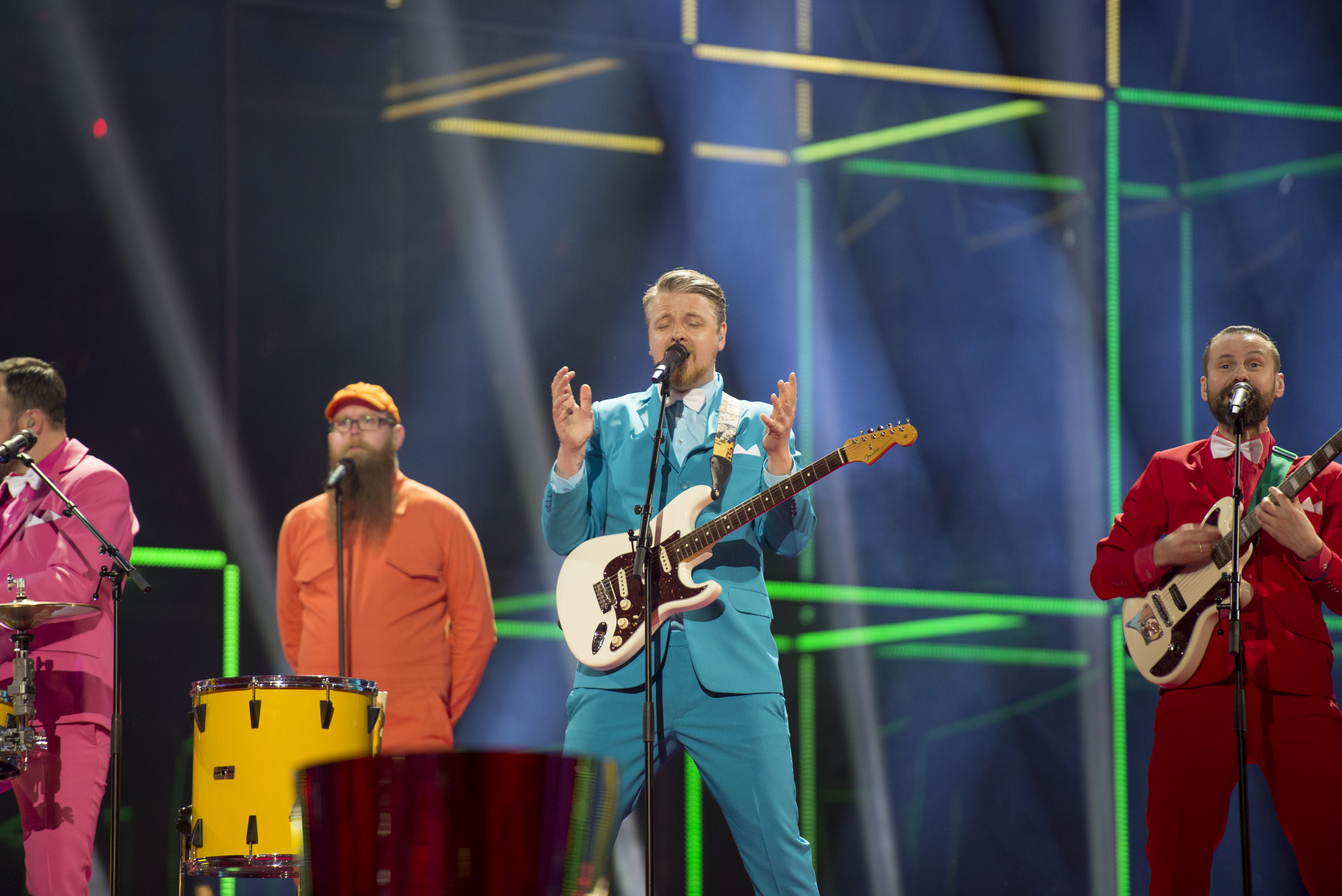 Pollapönk representing Iceland with the song "Enga fordóma" during the first dress rehearsal of the first semi final of the Eurovision Song Contest 2014 Copenhagen. (Help translate this text)